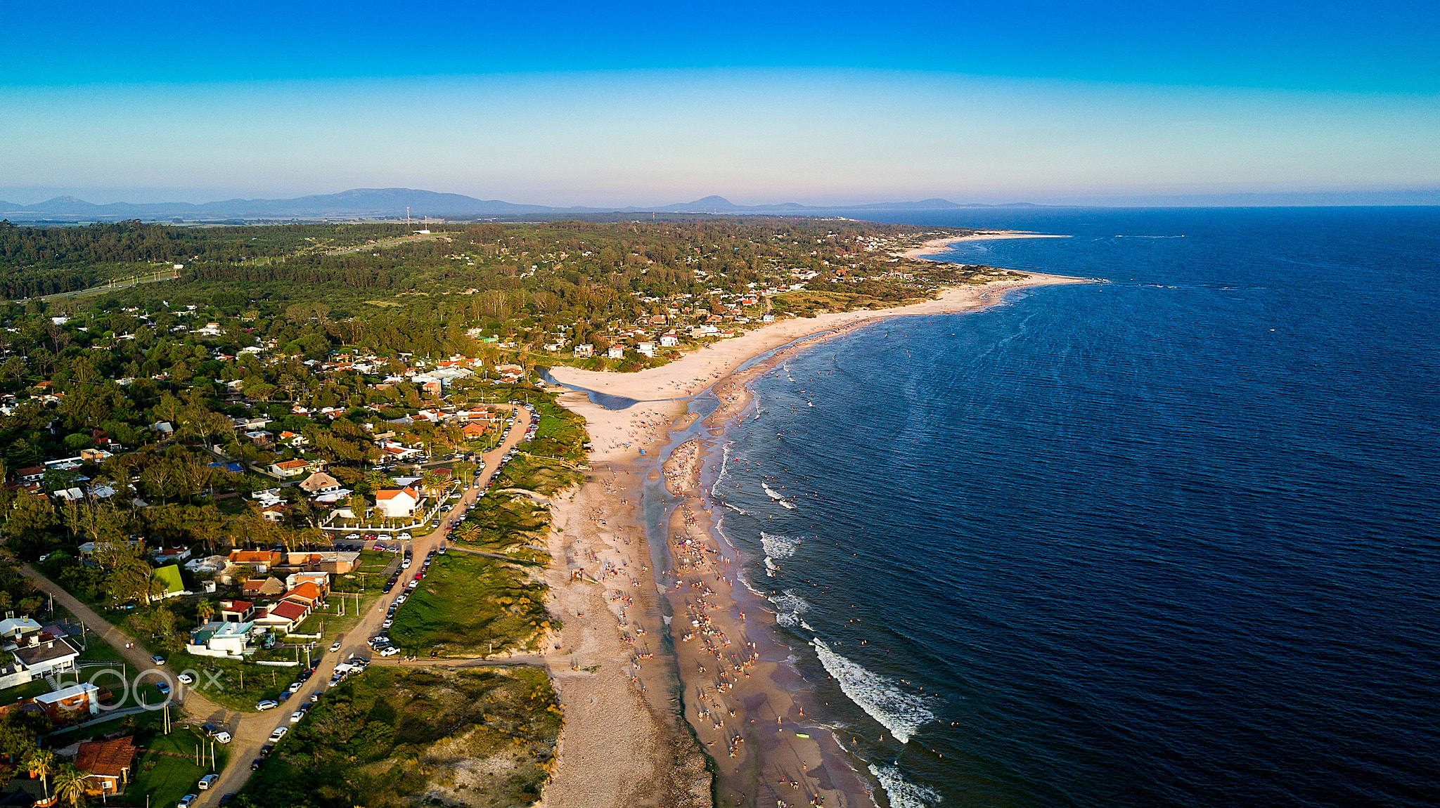 500px provided description: The Titanes is a Uruguayan resort of the department of Canelones. It is part of the municipality of La Floresta. [#trees ,#sky ,#red ,#girl ,#city ,#sea ,#beauty ,#sunset ,#water ,#beach ,#travel ,#blue ,#sun ,#light ,#clouds ,#ocean ,#tree ,#summer ,#beautiful ,#white ,#aerial ,#green ,#urban exploration ,#DJI ,#MAvic pro]